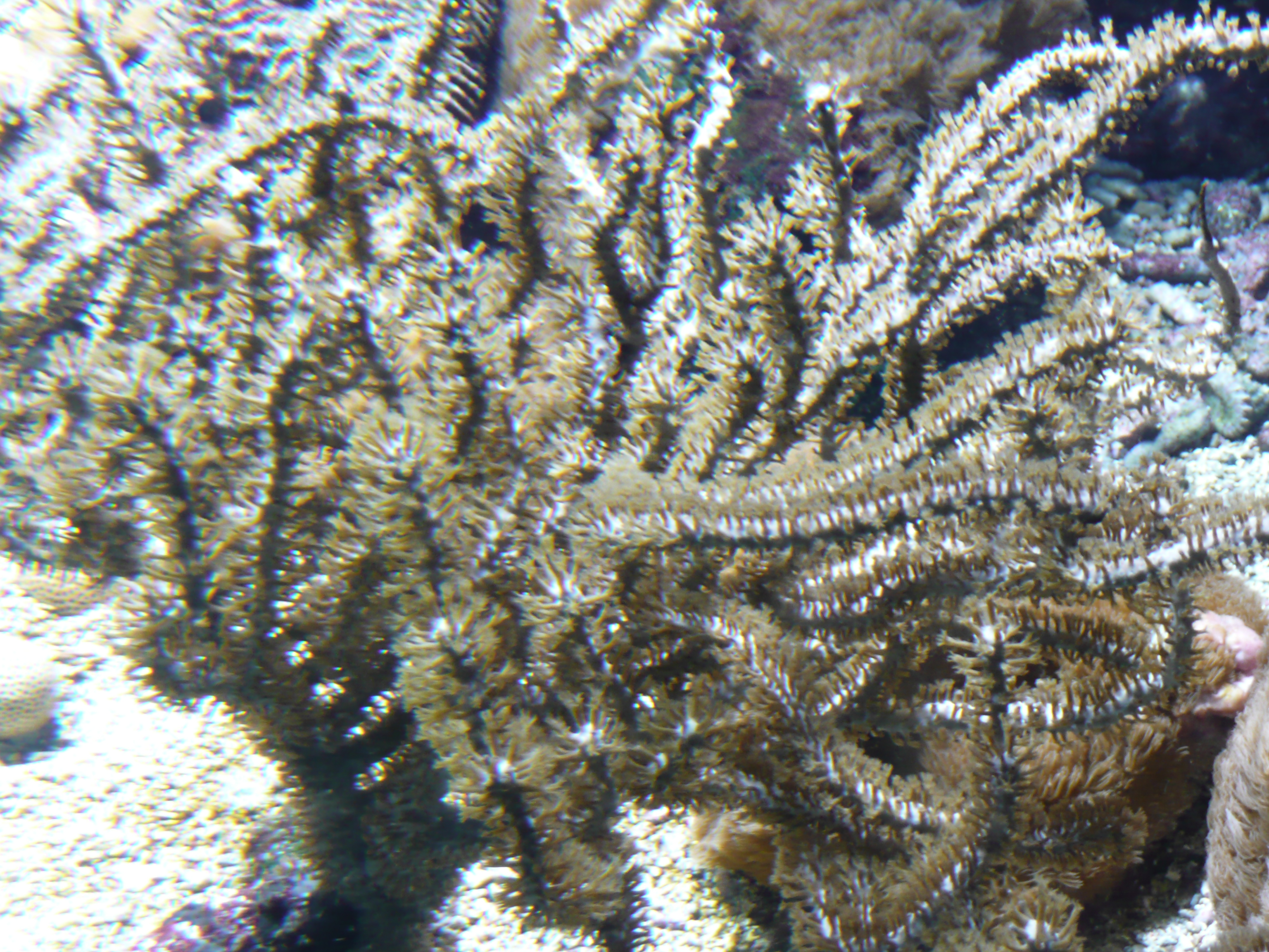 Eunicea sp. in the Aquarium de La Rochelle